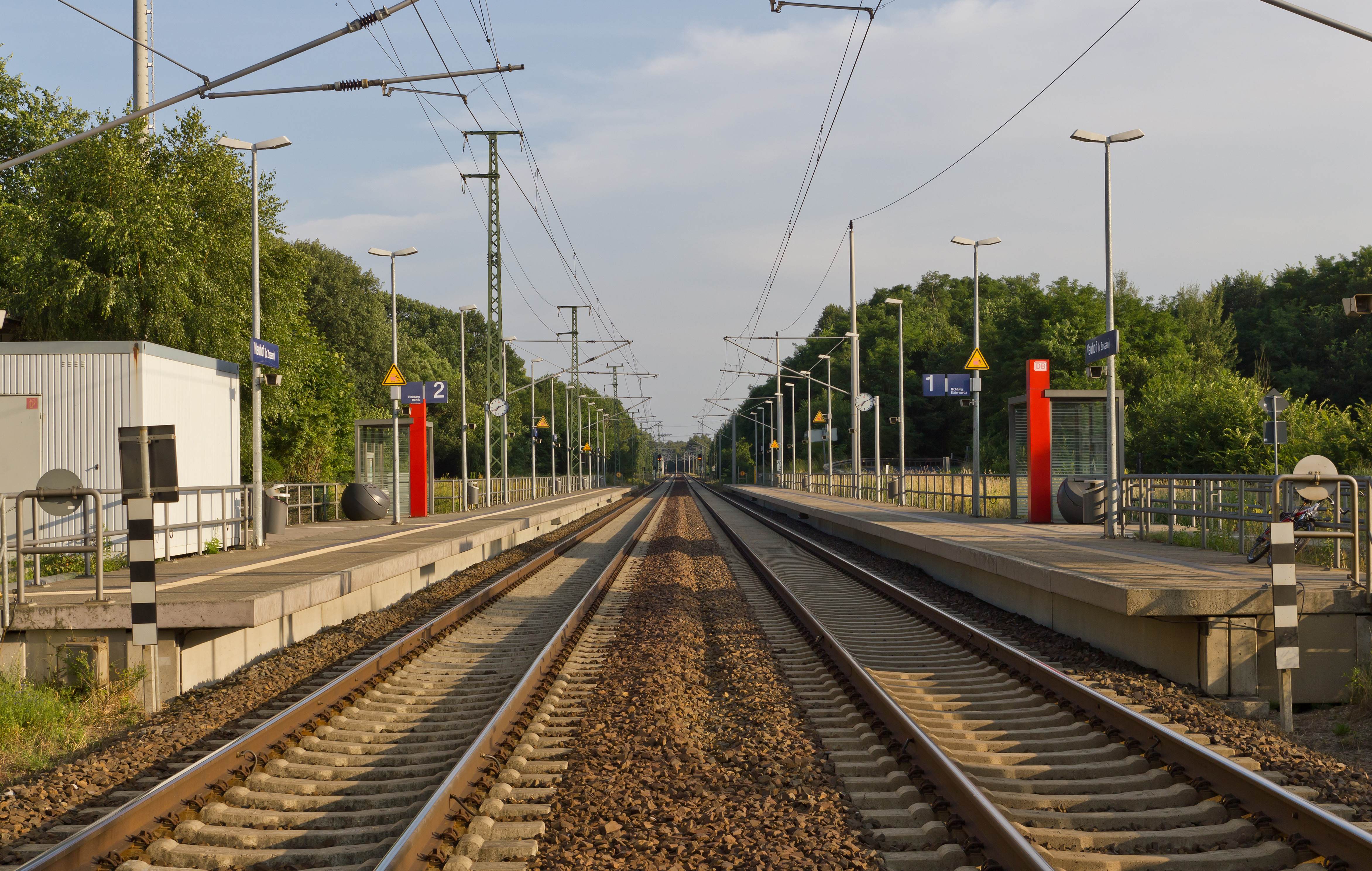 Train stop in Neuhof near Wünsdorf, Brandenburg, Germany